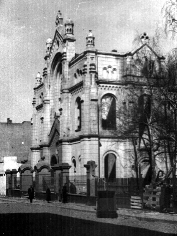 Ezras Israel Synagogue in Lodz, Wolczanska 6 street, (Poland) destroyed by nazists on November 10/11, 1939.